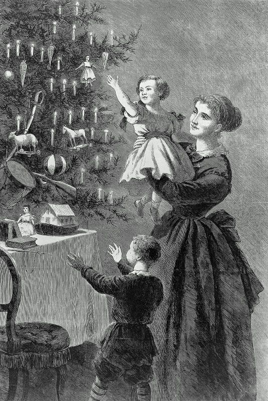 The Christmas Tree. January 1, 1870. John Whetten Ehninger, American, 1827–1889. Block: 34.9 x 23 cm (13 3/4 x 9 1/16 in.). Wood engraving, illustration for Harper's Bazaar. Classification: Prints. Museum of Fine Arts, Boston.